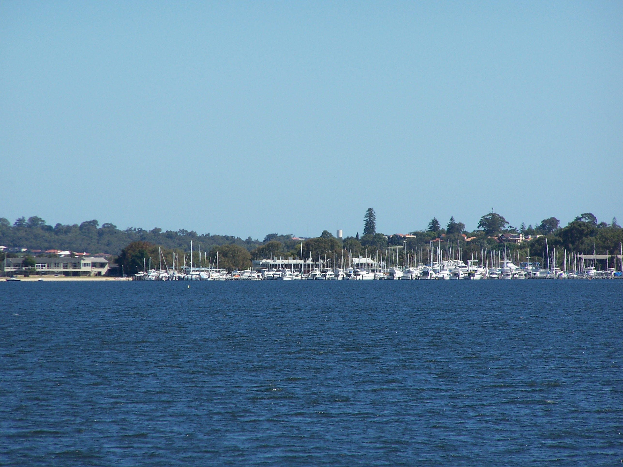 Royal Perth Yacht Club taken using telephoto lens across from the Narrows.